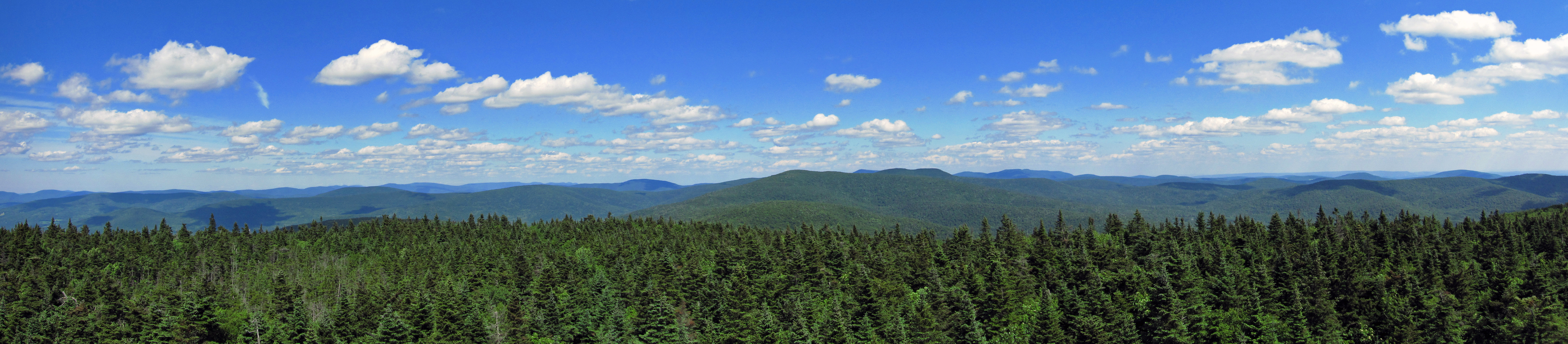 Panoramic view of Catskill Mountains from Balsam Lake Mountainfire tower, Hardenburgh, NY, USA